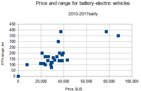 Electric vehicles range and price, until 2017. Source: UBS Evidence Lab Electric Car Teardown , numbers at